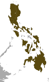 Fischer's Pygmy Fruit Bat (Haplonycteris fischeri) range